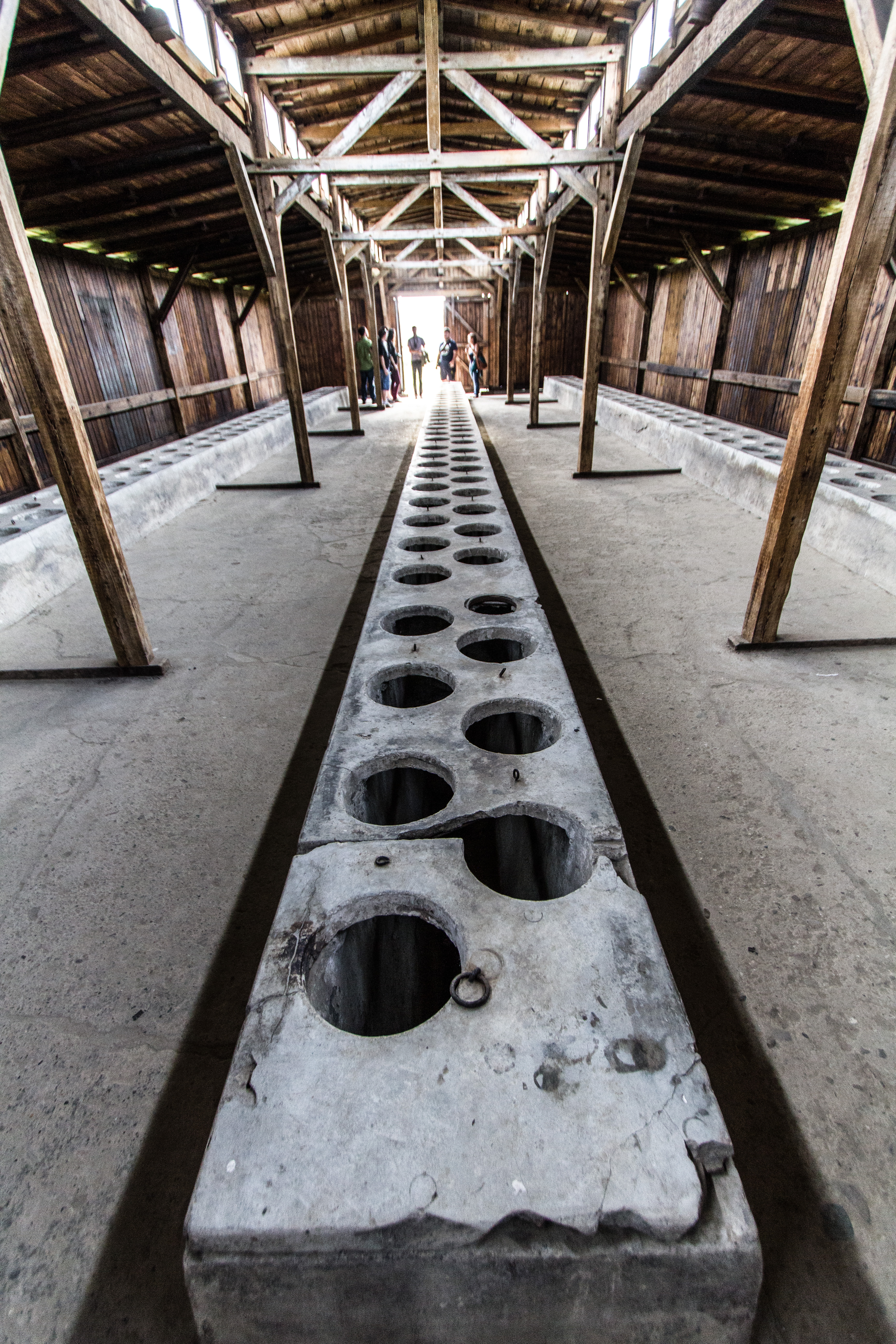 Latrine at Auschwitz-Birkenau